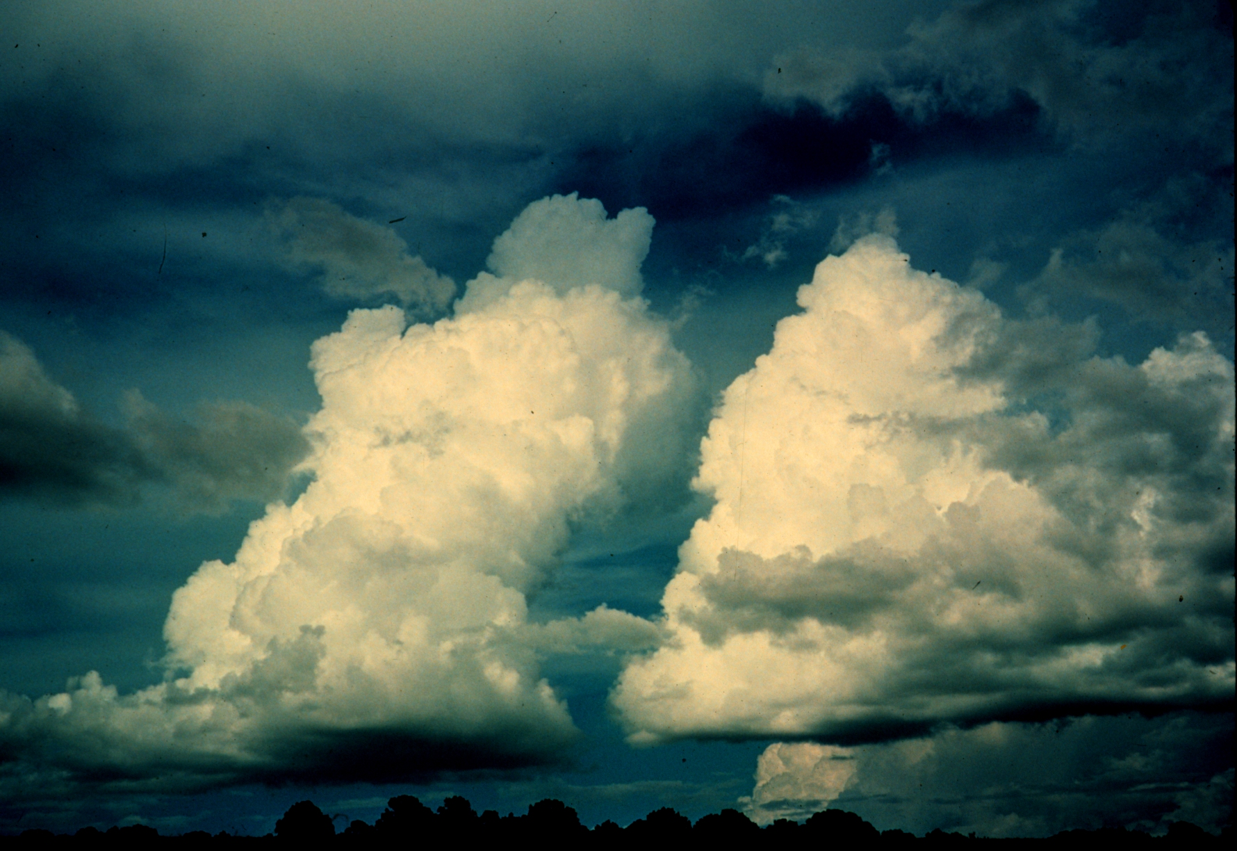 Towering cumulus, Coconut Creek, Florida